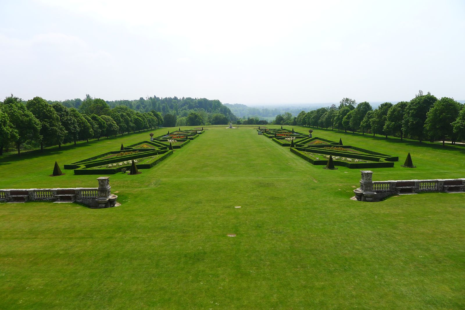 The Parterre at Cliveden, Berkshire.